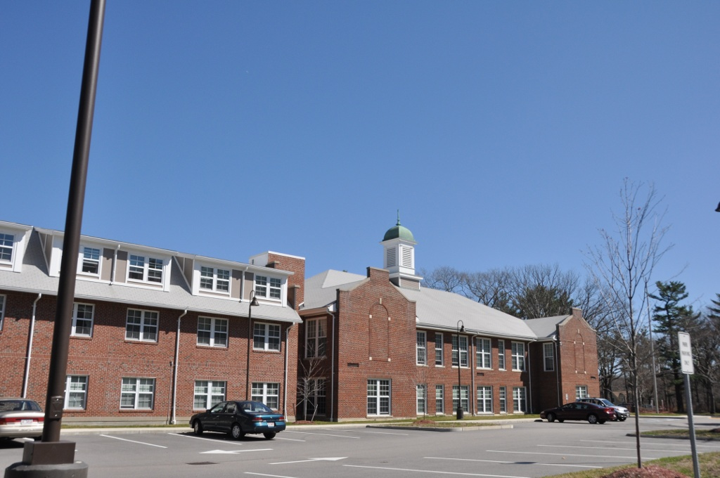 The Pond Street School, also known as the Fulton School, of Weymouth, Massachusetts. The building has been converted to condominiums.